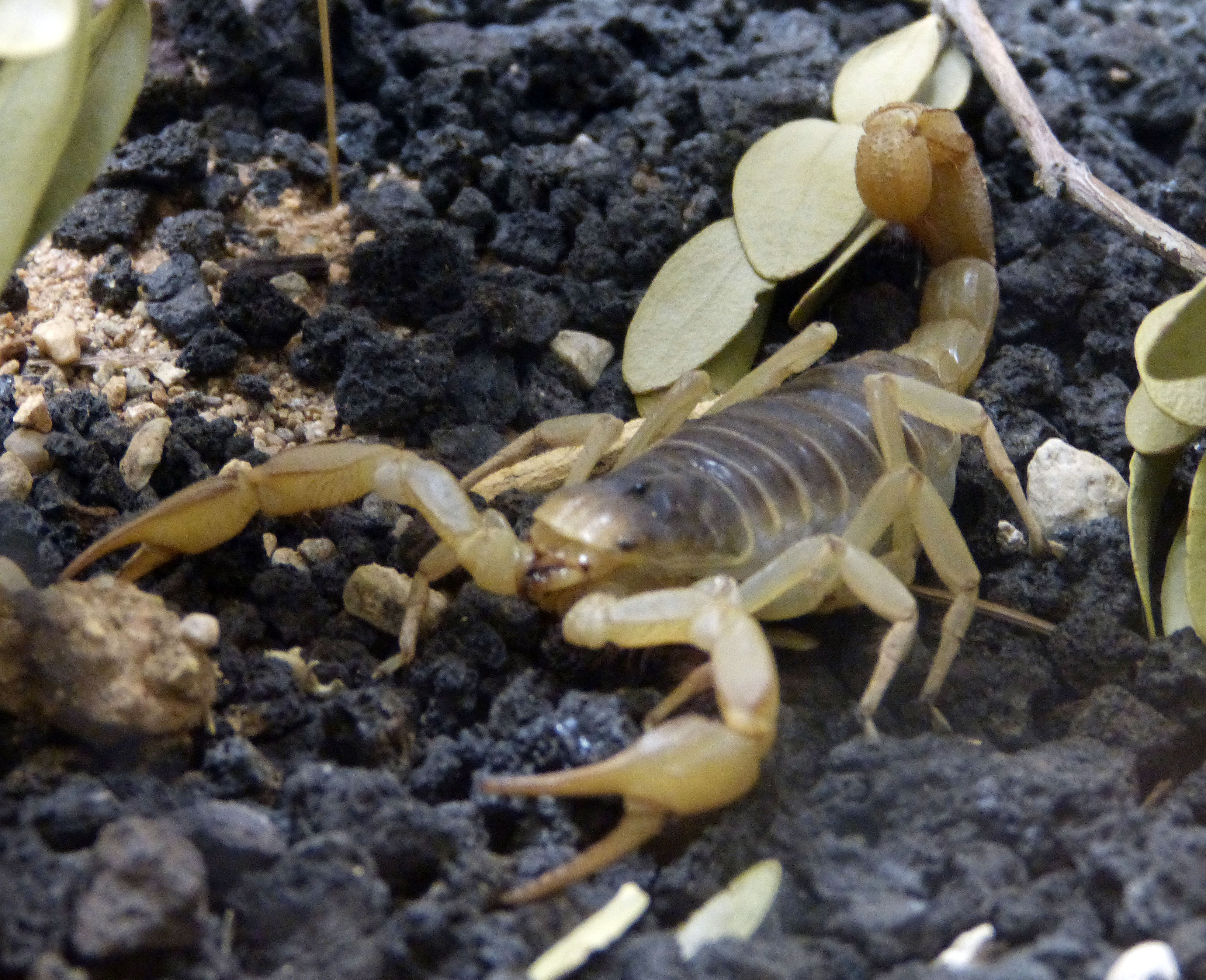 Giant Desert Hairy Scorpion, Hadrurus arizonensis